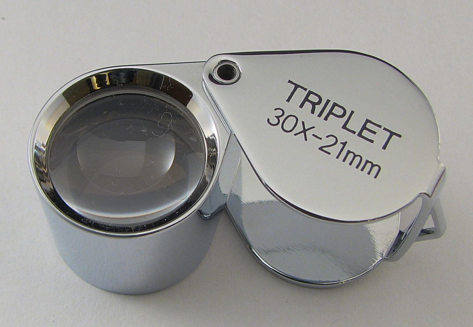 A type of magnifying glass known as loupe.